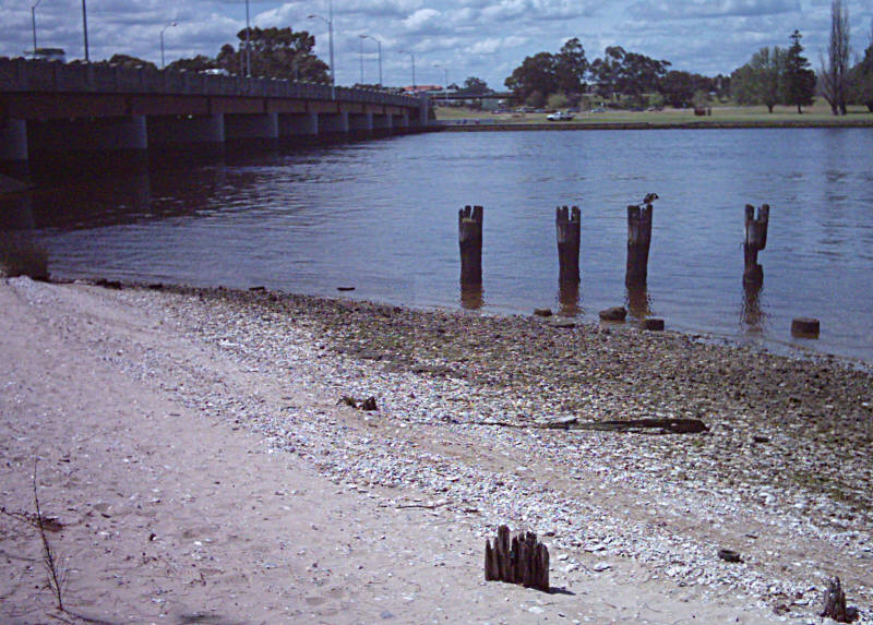 Photo taken and uploaded by User:Gnangarra. View of the causeway southern section including remaining structure of previous bridge. Looking from Herrison Island towards Victoria Park.